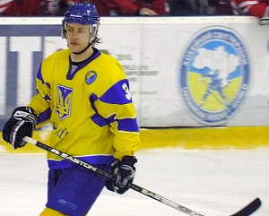 Defender Serhiy Klymentiev #3 of the Ukraine during the friendly game against the Poland on April 10, 2010 at the Terminal Arena in Brovary, Ukraine. Ukraine won the game 2:1.